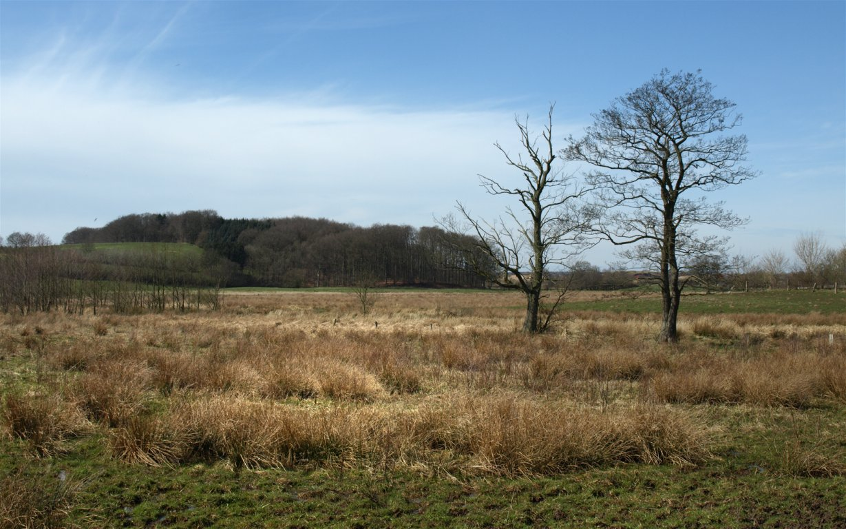 Slesvic-Holstein (Germany), valley of the river Eider, photo 2008